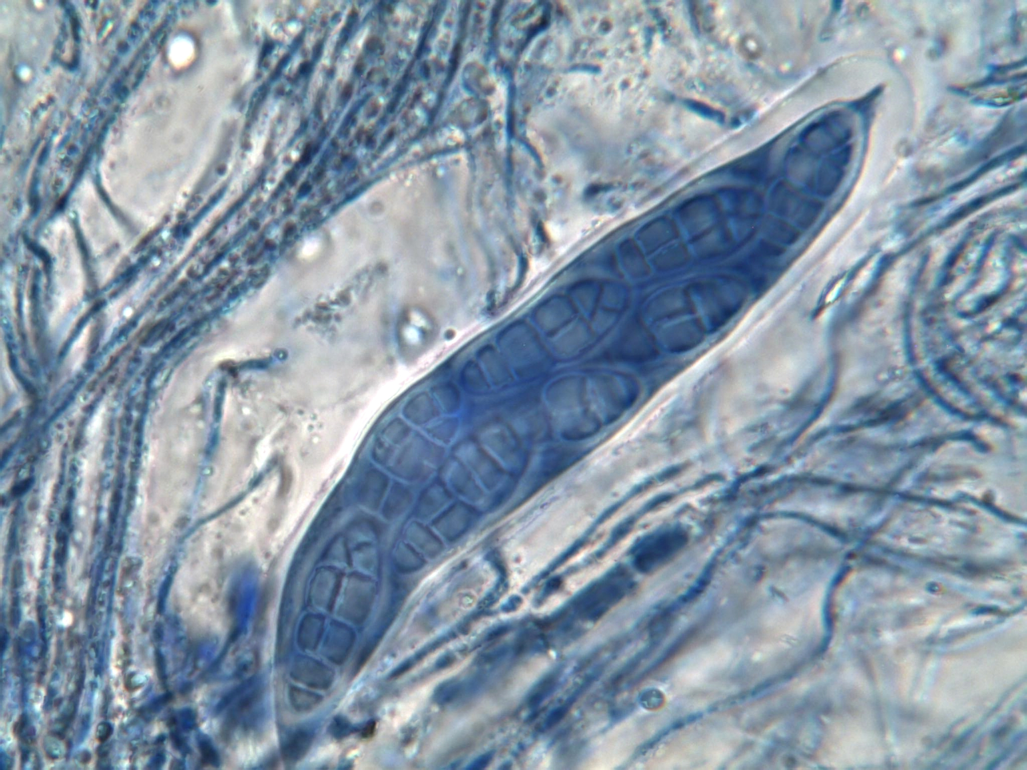 Hysterobrevium smilacis (Schwein.) E. Boehm & C.L. Schoch Image location: Parque de Monsanto, Lisboa, Portugal As mentioned at observation 268854 devoted to Histerobrevium mori, in the sample collected I found some lirellae of another species, Hysterobrevium smilacis, whose microscopic features now I can recognize well, because found it recently two or three times. Those lirellae where found at the bottom at the photo attached and are the wider there. Recognized by sight For more information about this, see the observation page at Mushroom Observer.